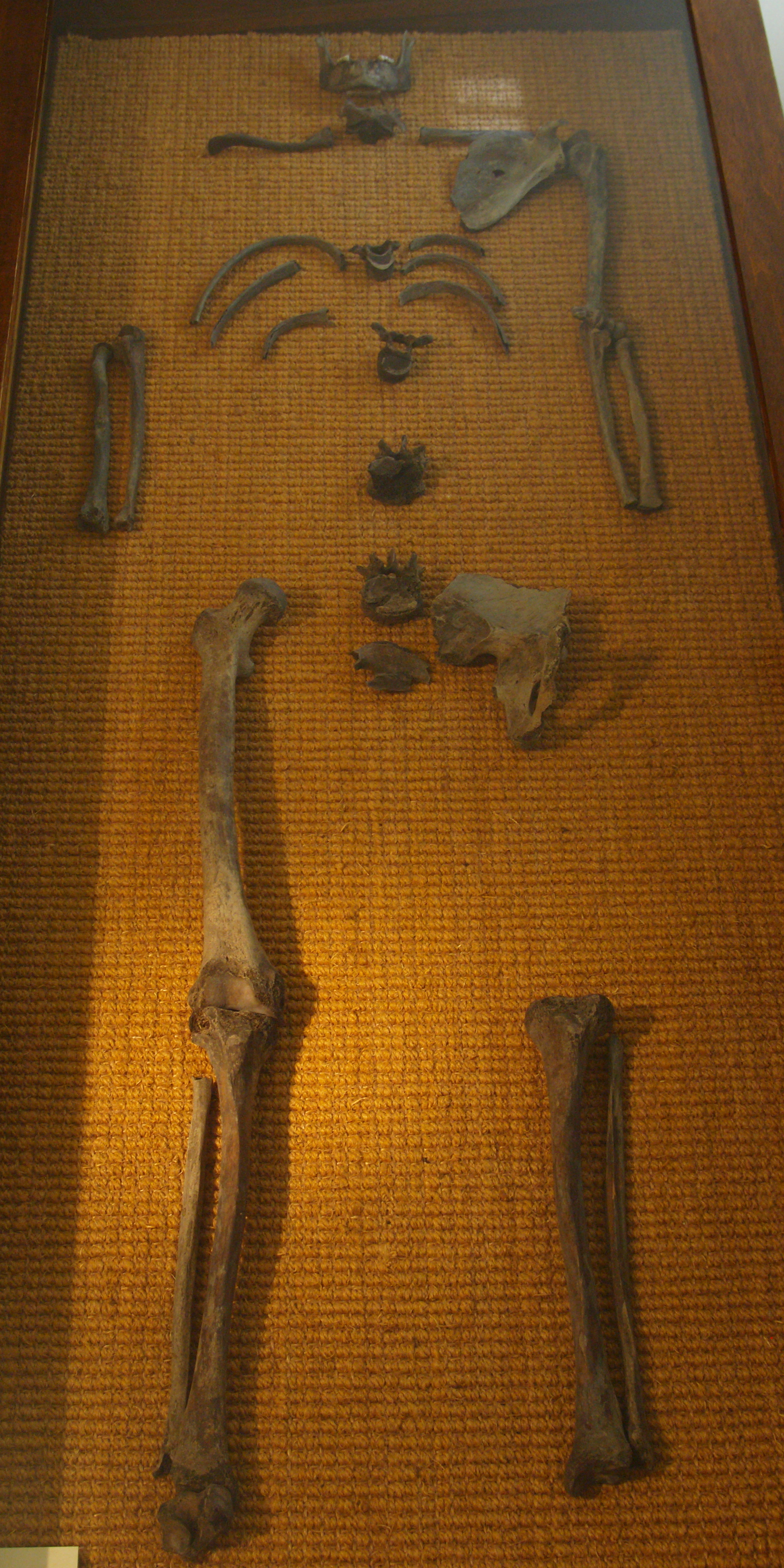 Remains of bog body Bremervörde Gnattenburgswiesen, Bremervörde FStNr. 98. Fund in late September 1934 at Gnattenburgswiesen near river Oste at Bremervörde, Landkreis Rotenburg (Wümme), Lower Saxony Germany. Dating to 7th - 8th century AD. Photographed at Bachmann-Museum, Bremervörde, Germany. Inventory No. A 2010:0243.